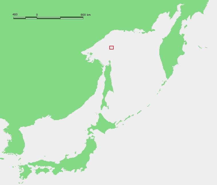 location map